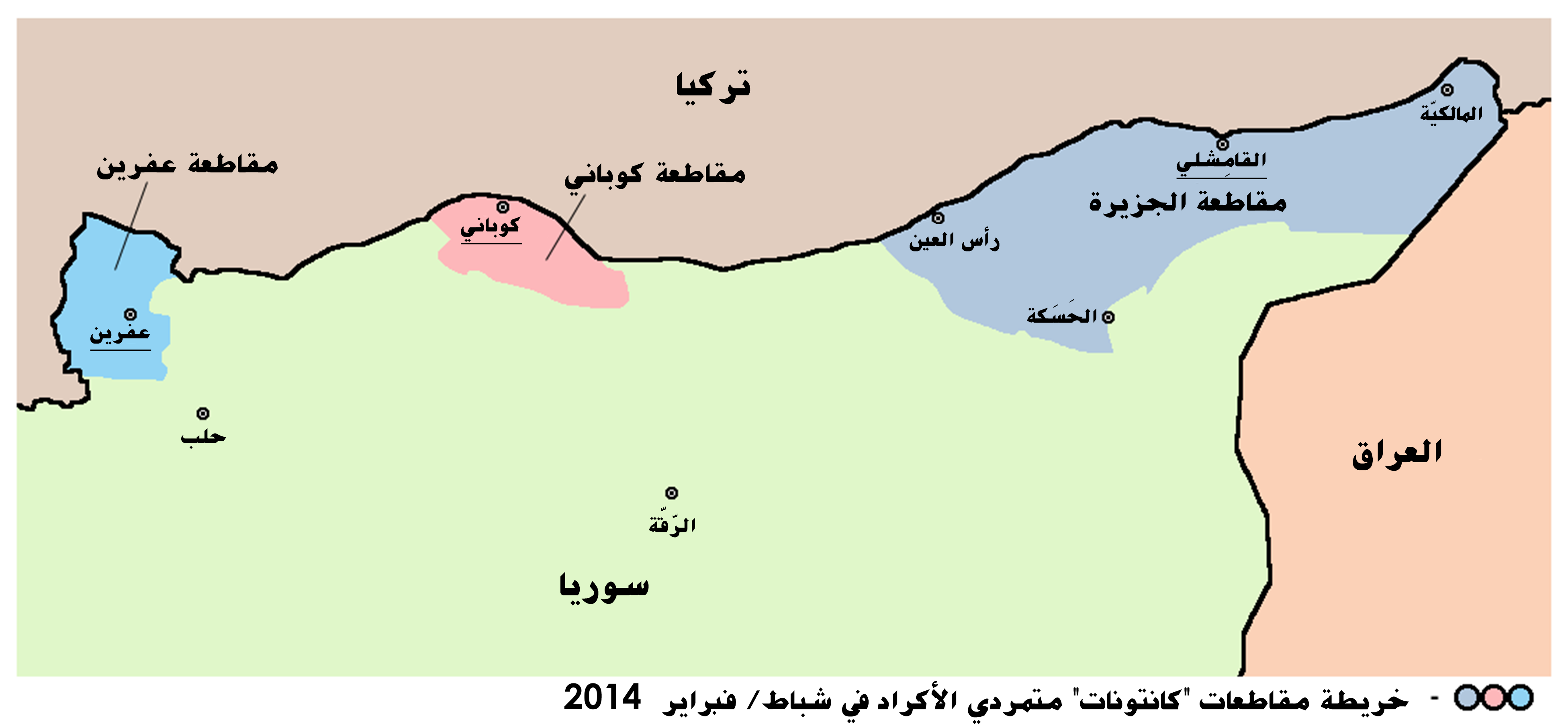 Map showing de facto cantons of Rojava (Western Kurdistan) in February 2014.